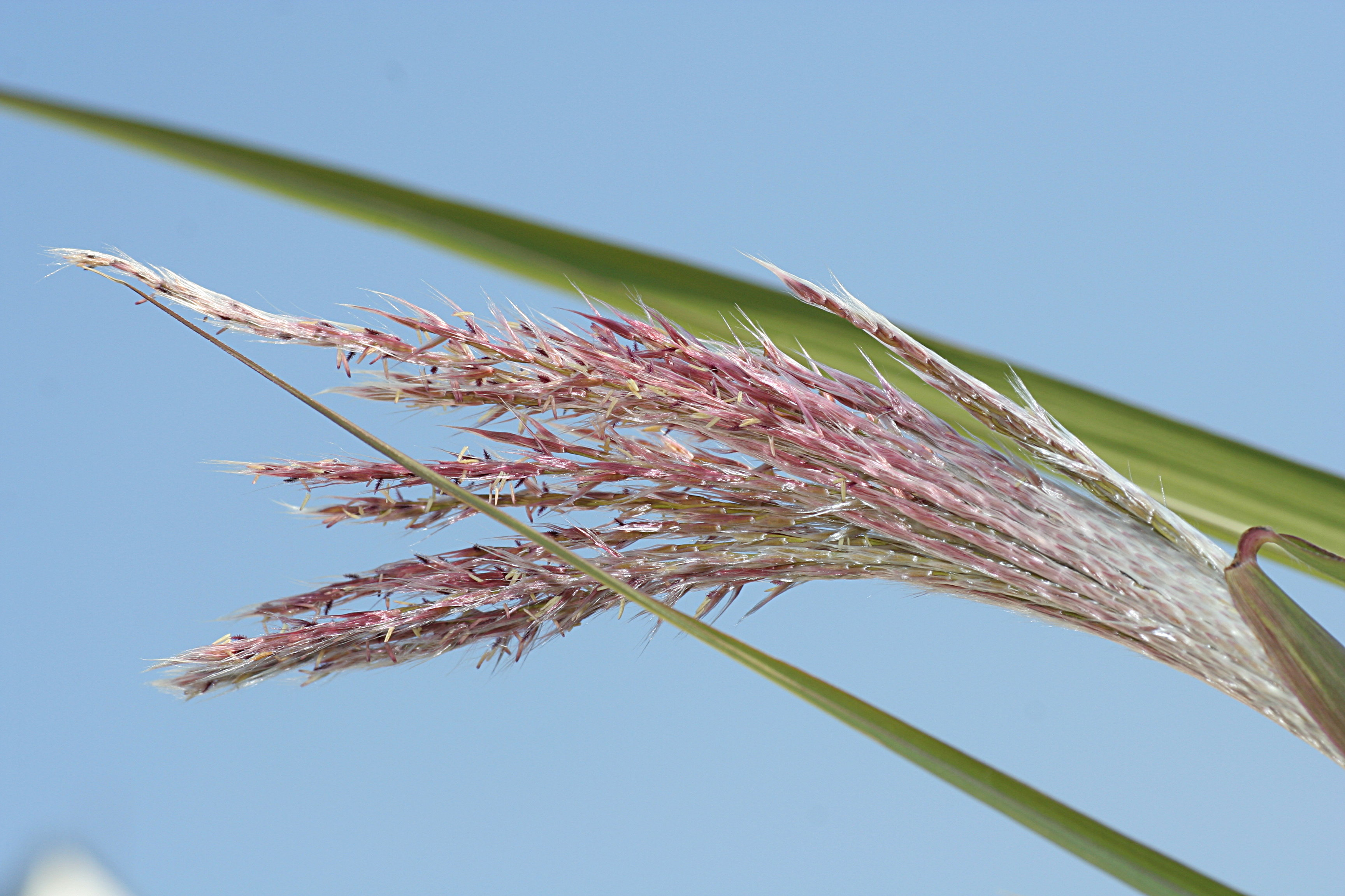 Blossom of Phragmites_australis